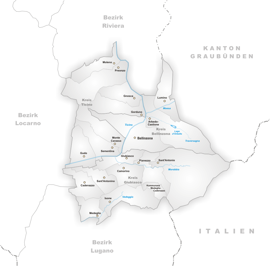 Municipalities of District Bellinzona